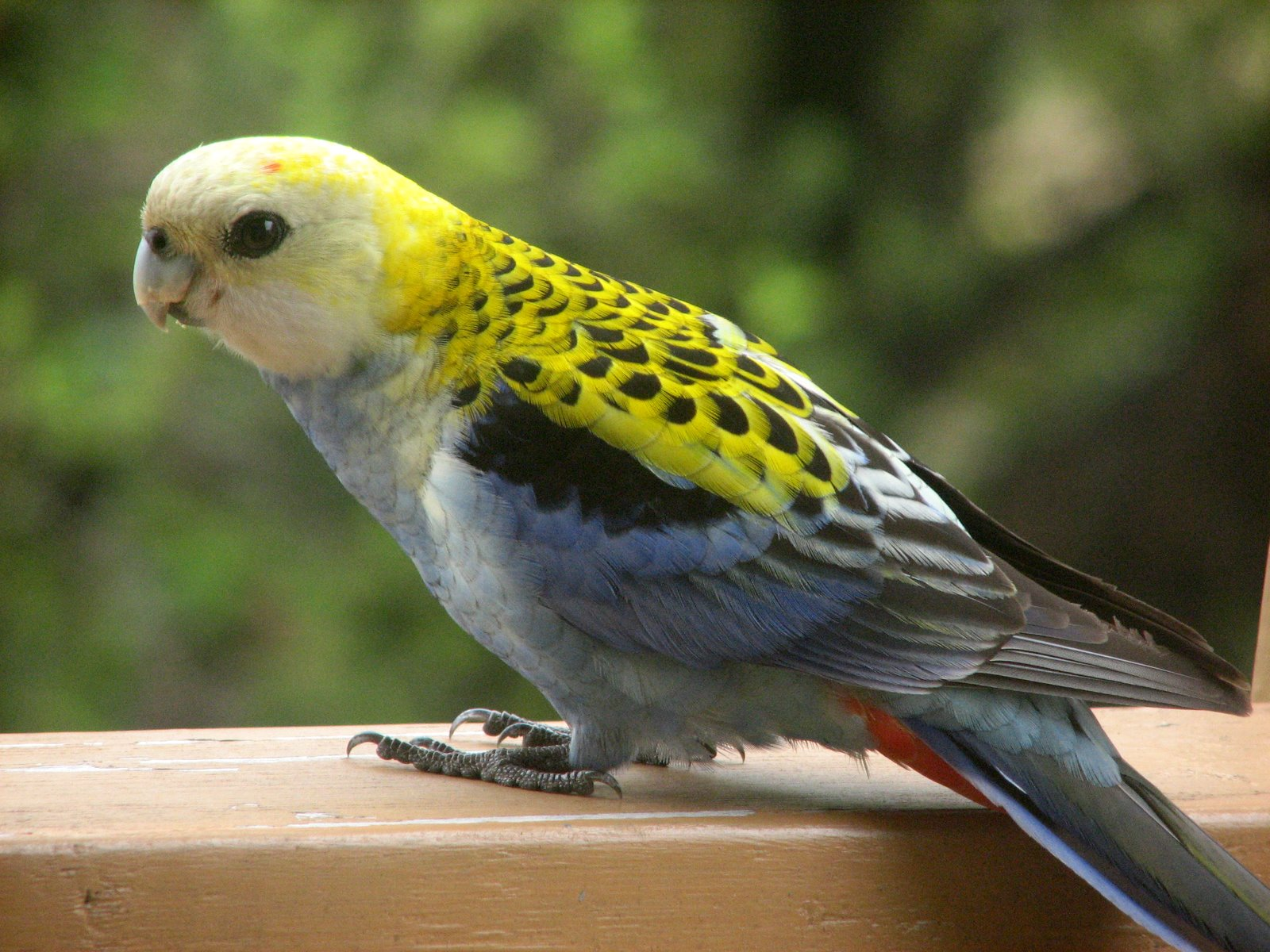 A Pale-headed Rosella in Brisbane, Queensland, Australia.